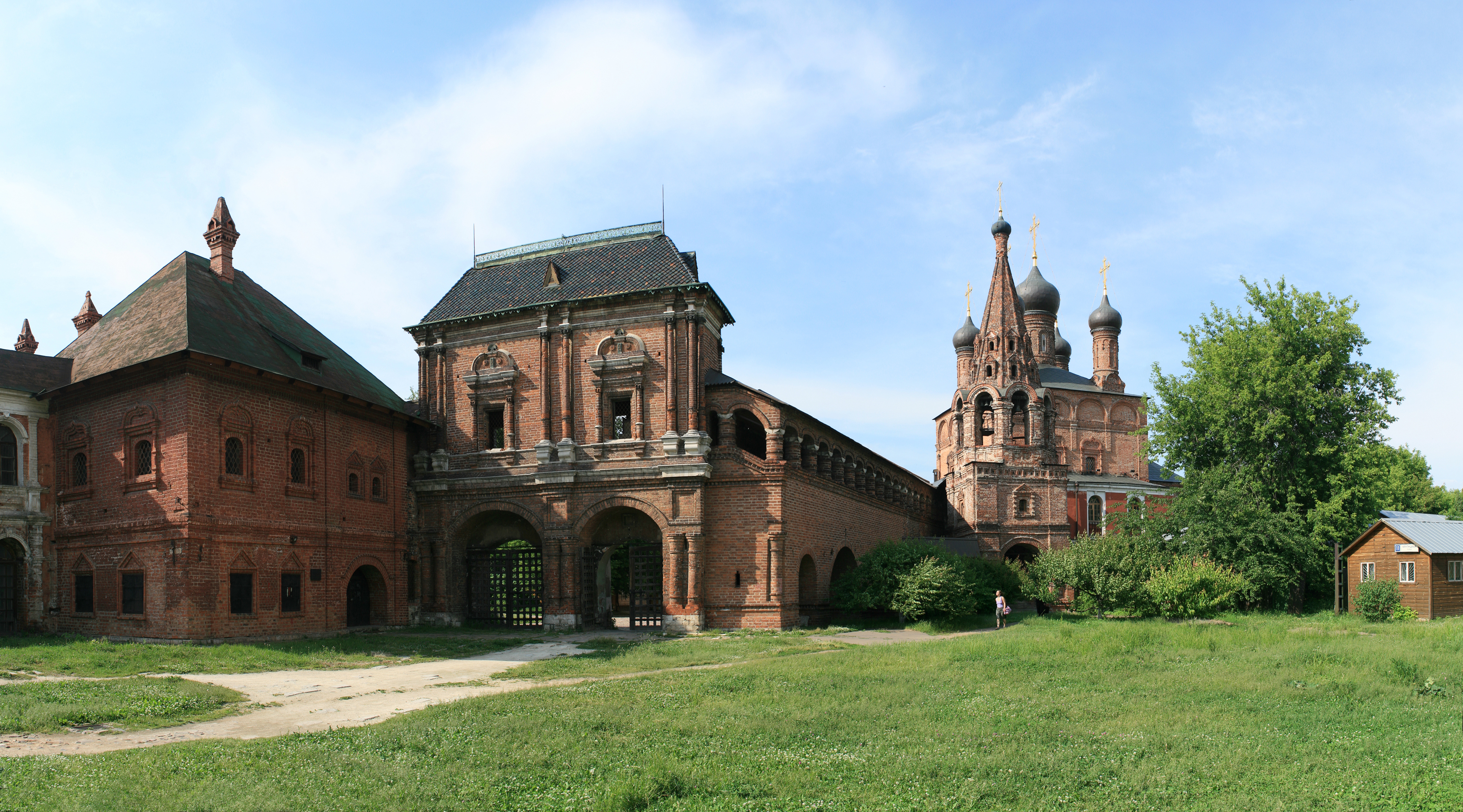 Krutitsy Metochion, Moscow